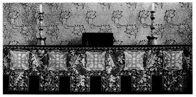 Plate XIII.—An Embroidered Altar Frontal, executed by Miss May Morris, designed by Mr. Philip Webb. The work is carried out with floss silk in bright colours and gold thread, both background and pattern being embroidered. The five crosses, that are placed at regular intervals between the vine leaves, are couched in gold passing upon a silvery silk ground.\